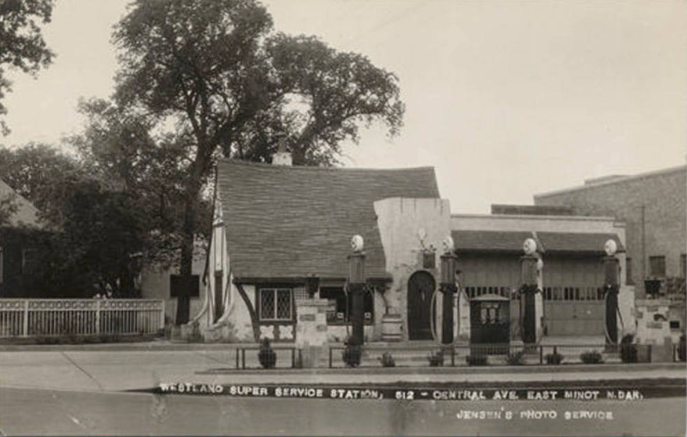 Photographic postcard of Westland Oil Filling Station, Minot